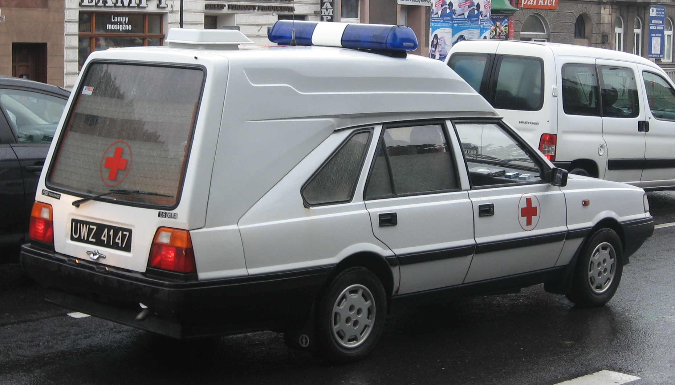 FSO Polonez Cargo 1.6 GLE-based military ambulance on Konopnickiej avenue in Kraków.